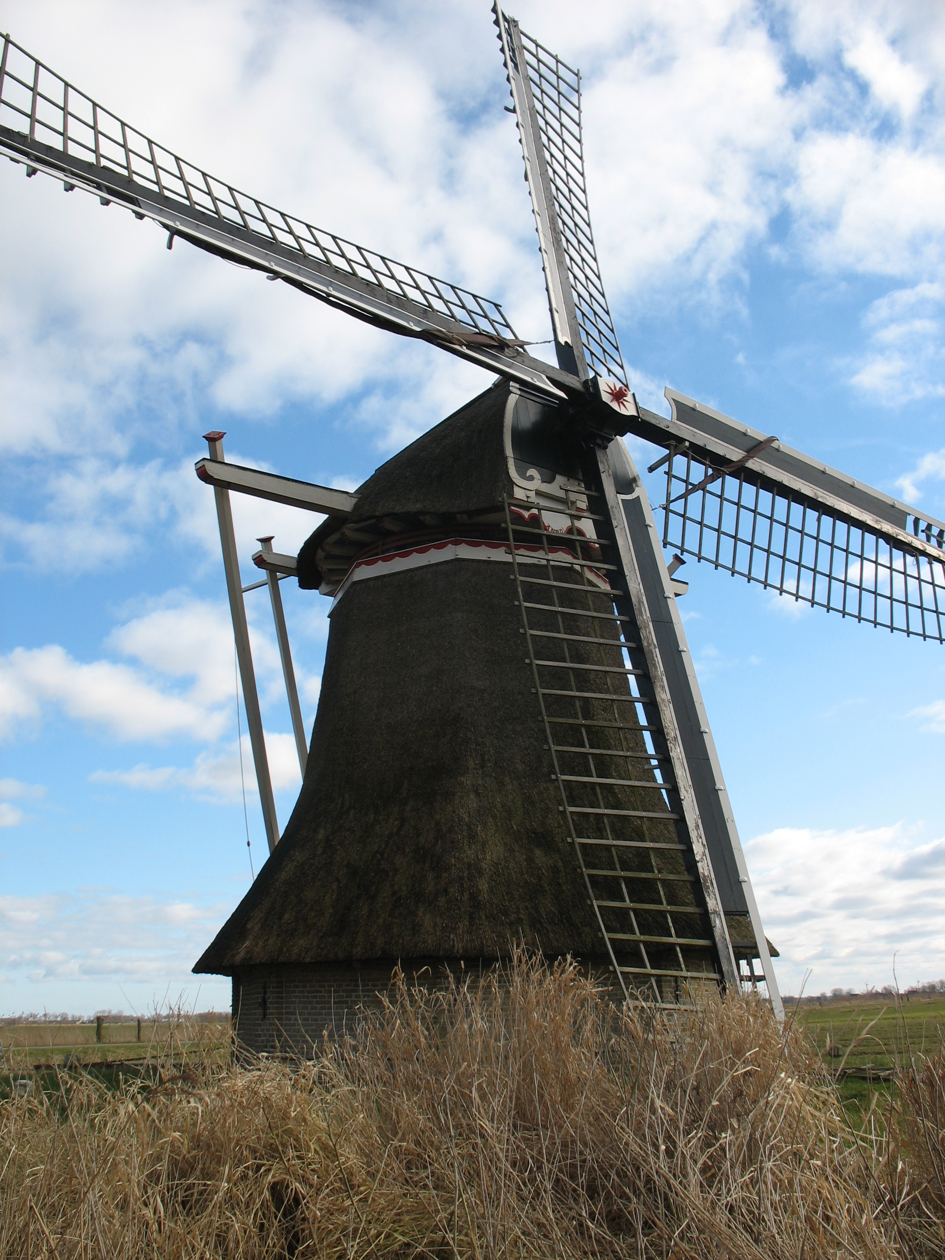 Dit is een foto van de Genazareth kloosterpoldermolen bij Hallum